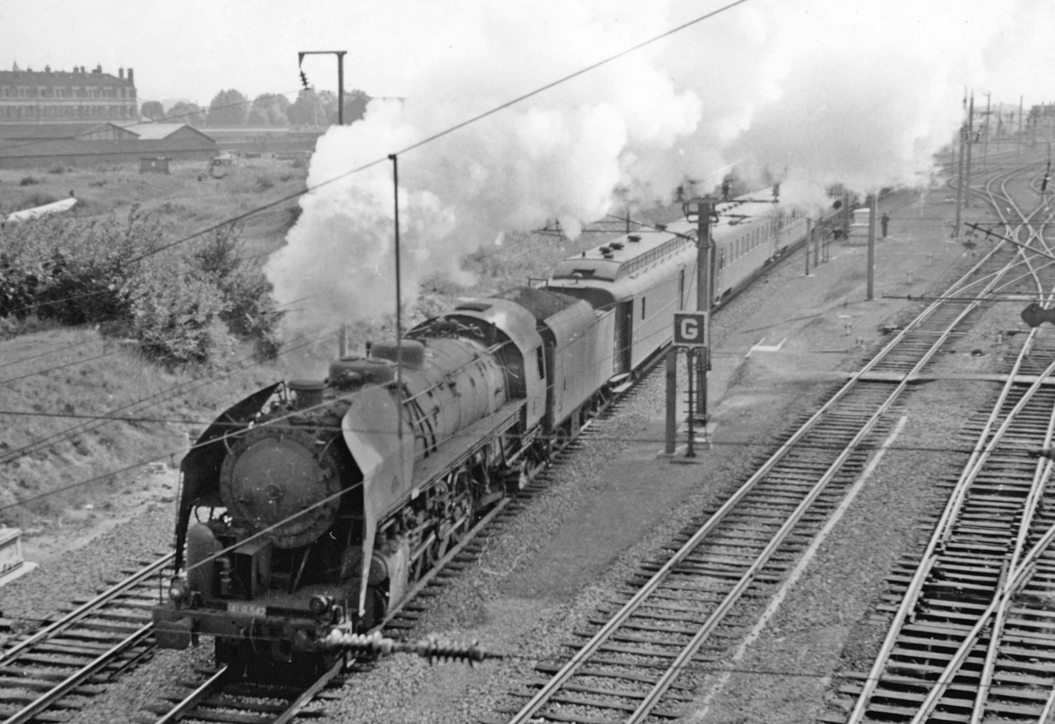 Westbound international express near Lille Sud (Nord), with an American-built 141 class locomotive, 1957.